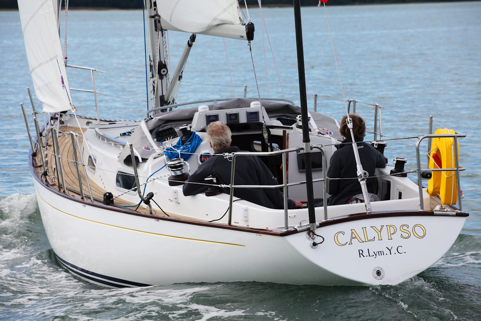 Contessa 32 sailing